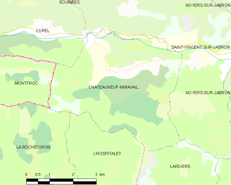 Map commune FR insee code 04051.png Légende